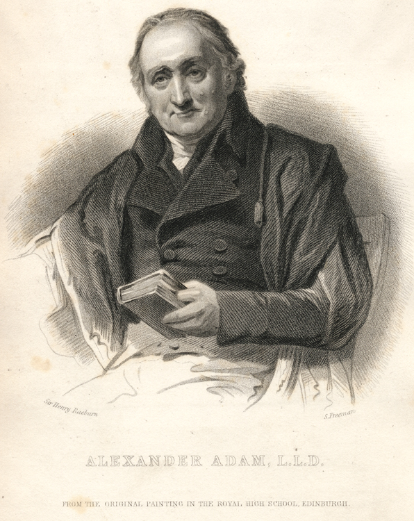 Photograph of engraving of Alexander Adam. By Samuel Freeman after Sir Henry Raeburn, 1835. In the public domain.